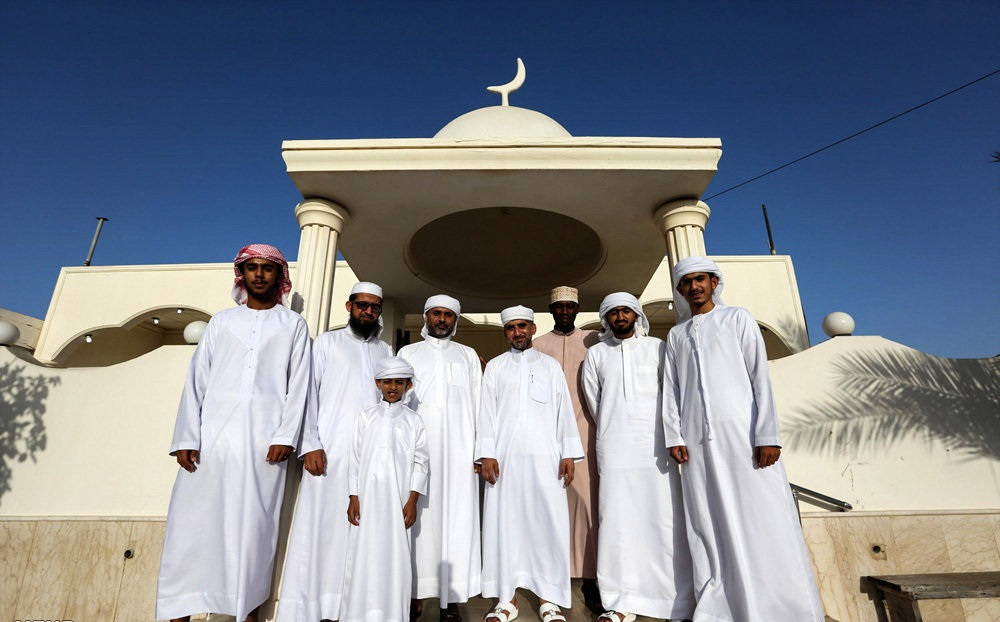 On Eid al-Fitr day, the Arab people of Kish, after the Eid prayers, come together to see each other. In every house, the hosts cater to guests with Arabic cuisine and pastries. People wear their best clothes and children get Eid gift. Men usually wear traditional Arabic clothing. The smell of Arabic flavors and coffee comes from all the houses. Visits continue until noon. [ more]